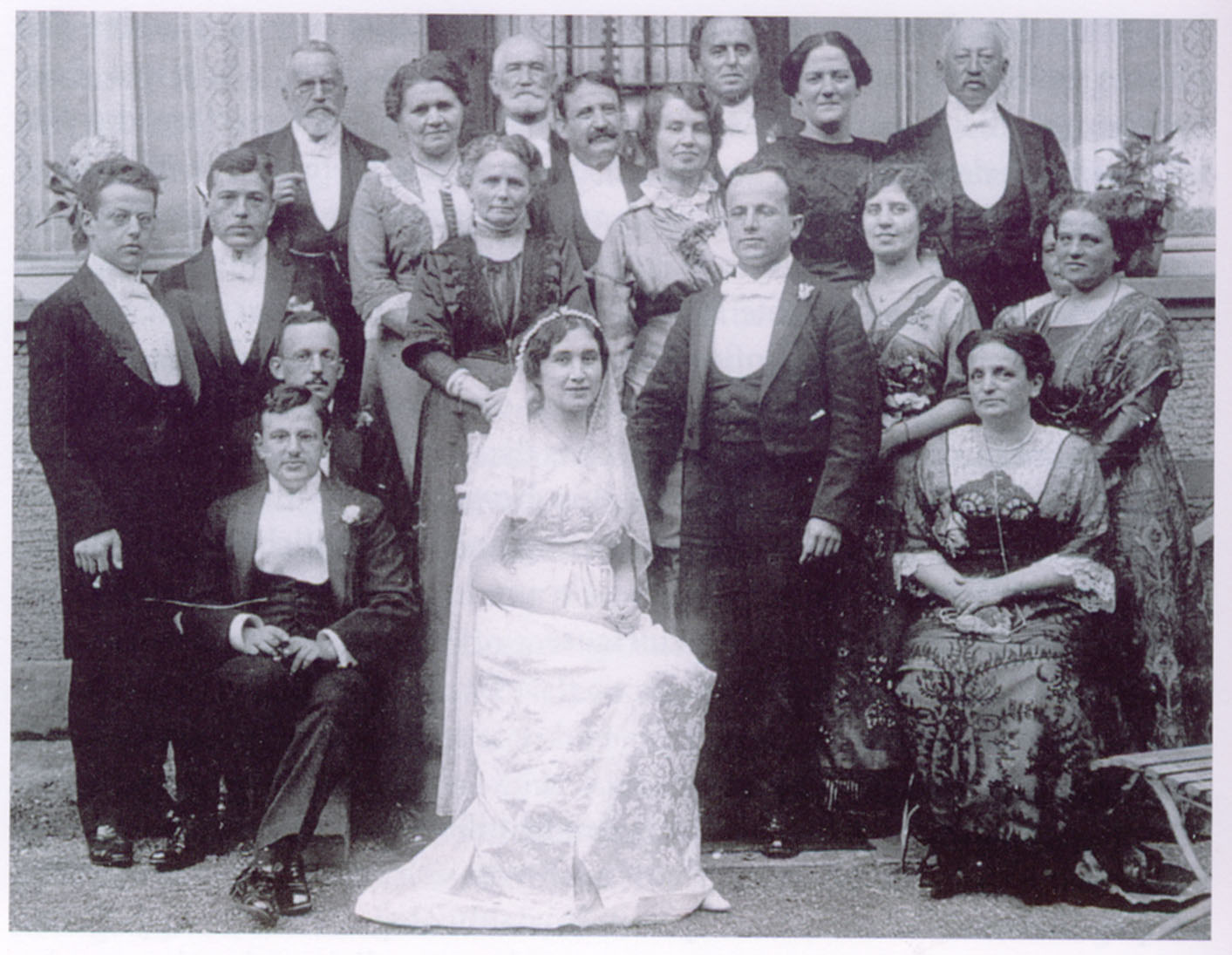 Hans and Else Ehrenberg wedding, 1913. Front row, seated left to right are: Franz Rosenzweig (standing), Victor Ehrenberg and Paul Ehrenberg (behind Victor), Else Ehrenberg (bride), Hans Ehrenberg (groom), Emi Ehrenberg (groom's mother, seated). 2nd row, left to right: Rudolf Ehrenberg (standing), bride's sister (behind), bride's mother (in front), Victor Goldsmith (behind), bride's sister (in front), Mona) Philips (wife of Carlo). 3rd row left to right: Otto Ehrenberg (groom's father), Richard Ehrenberg, Carlo Philips, bride's father.